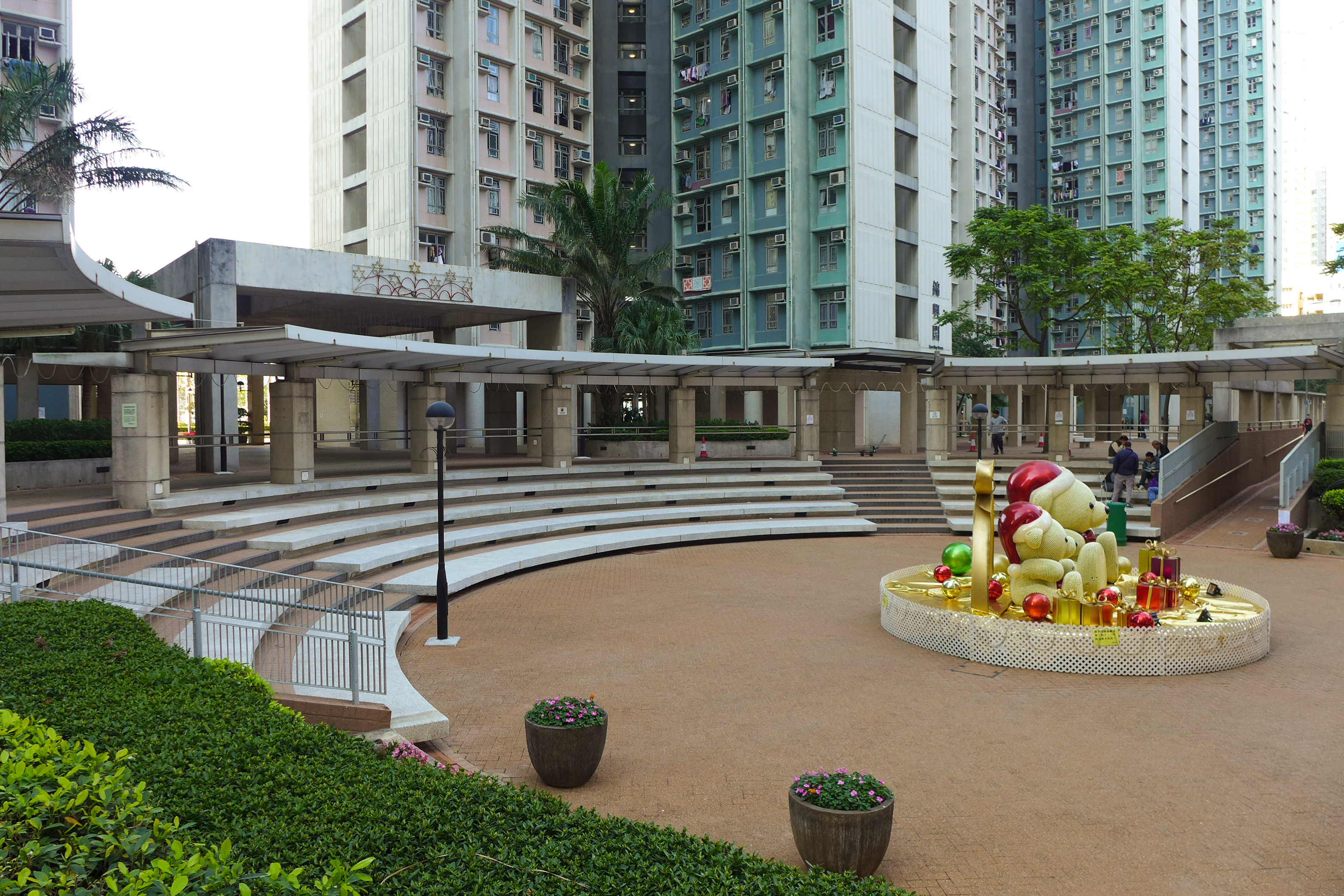 Kam Tai Court Amphitheater